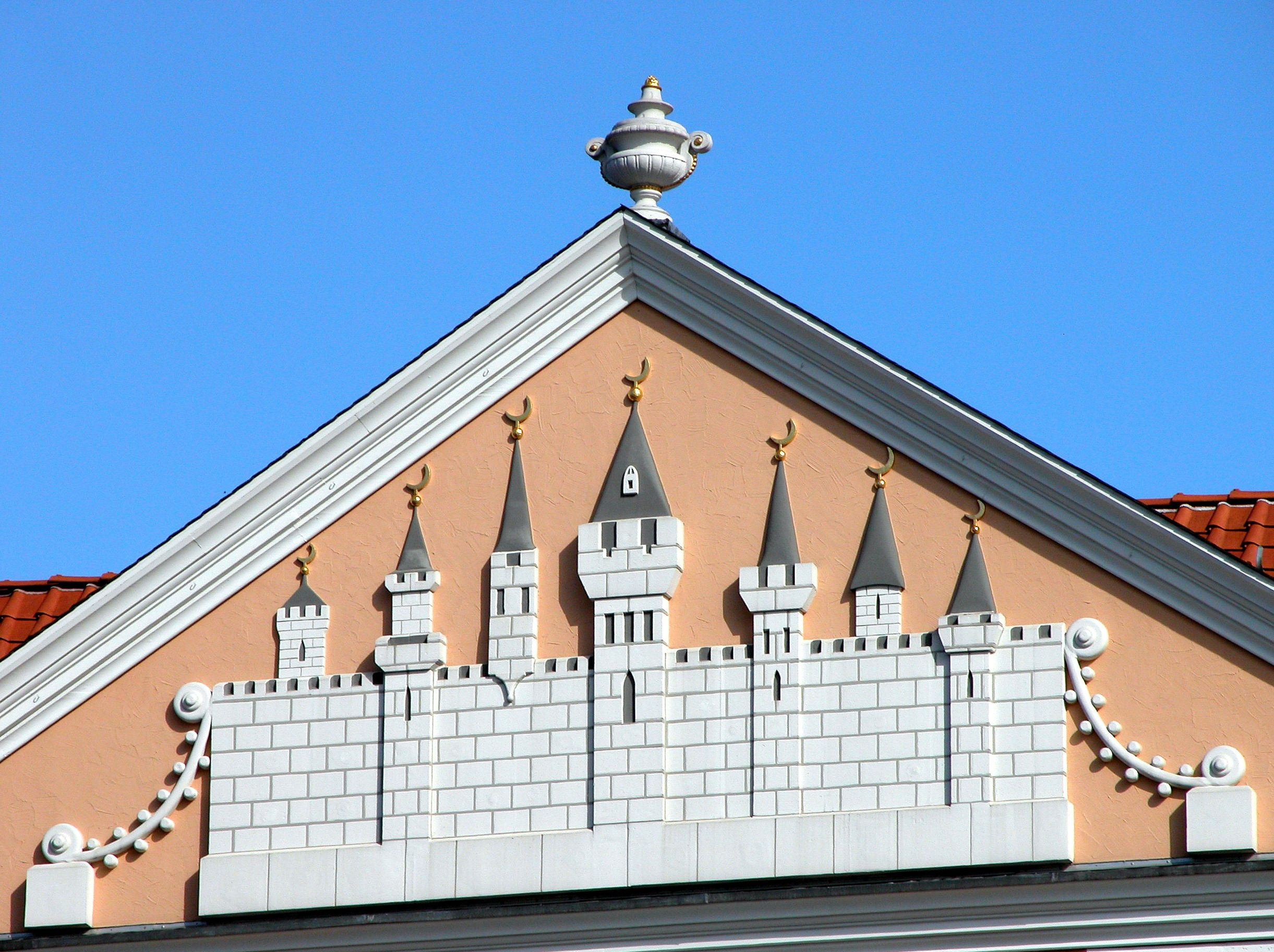 Braunschweig, Germany: 7-Towers-House, detail.